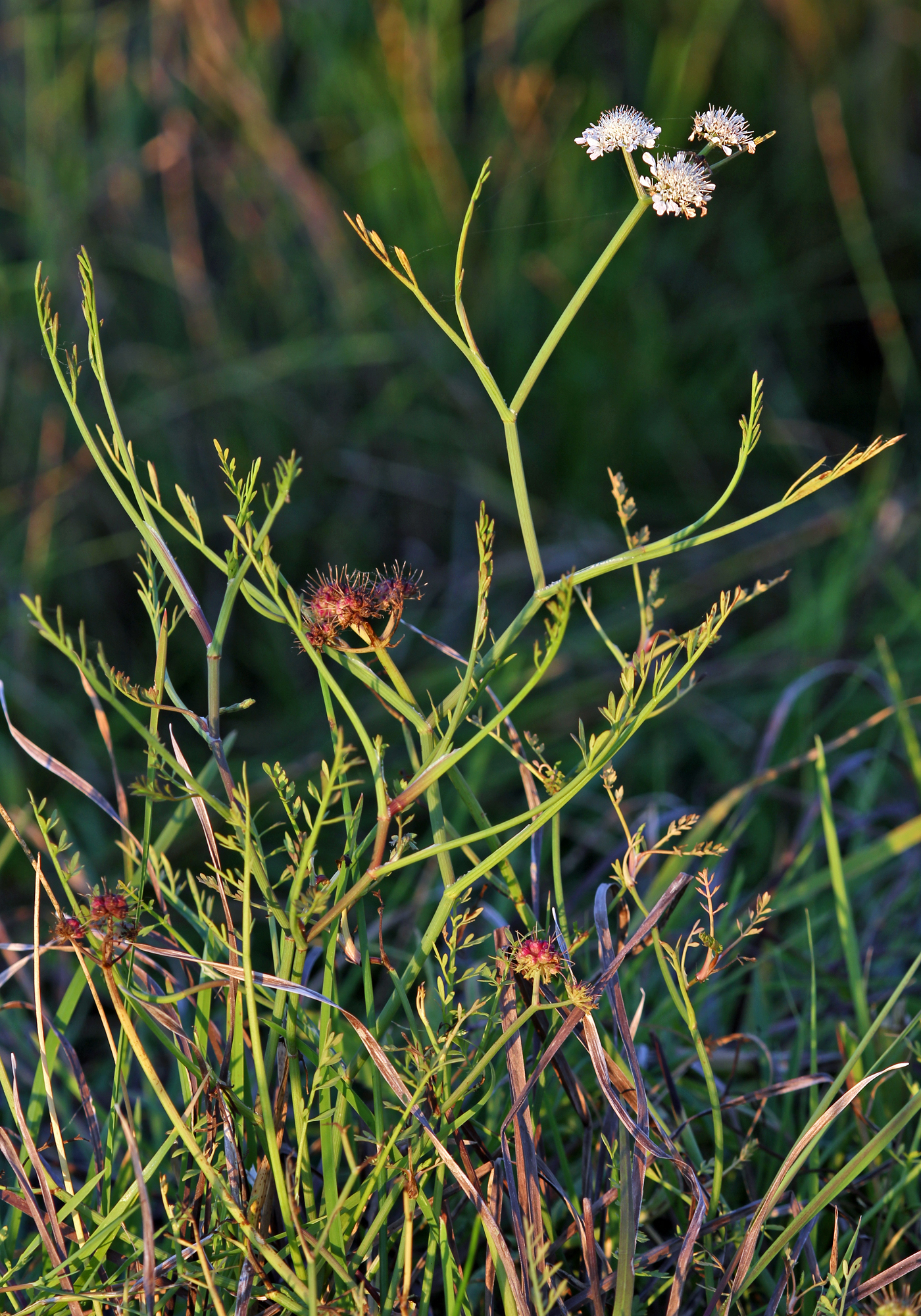 Habitus, inflorescences, and fruits of Oenanthe fistulosa (Apiaceae).